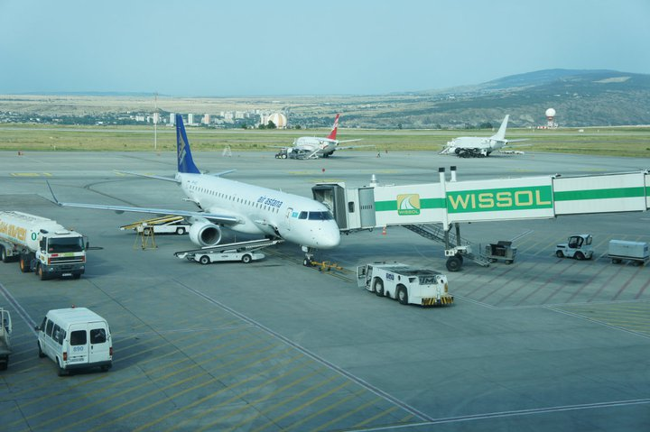 Tbilisi airport